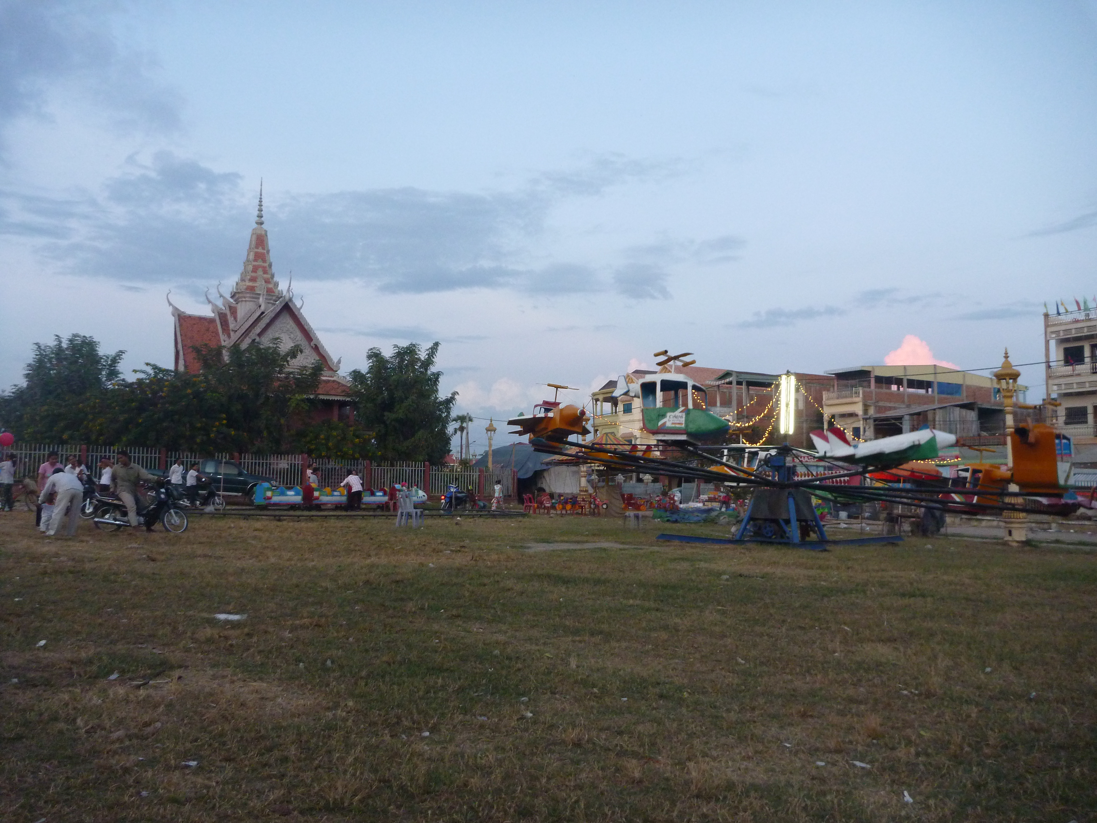 Park in town center